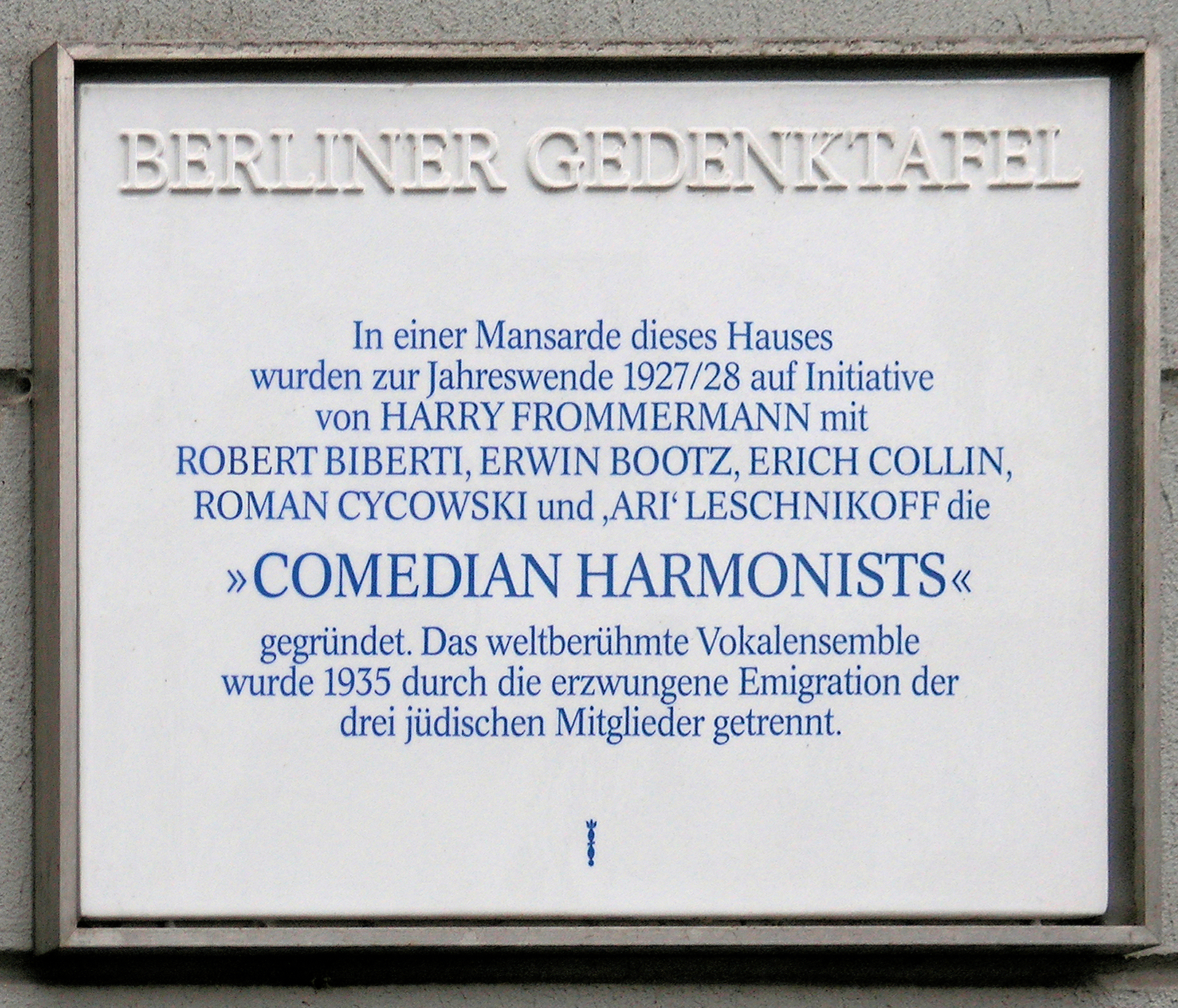 Berlin memorial plaque, Comedian Harmonists, Stubenrauchstraße 47, Berlin-Friedenau, Germany